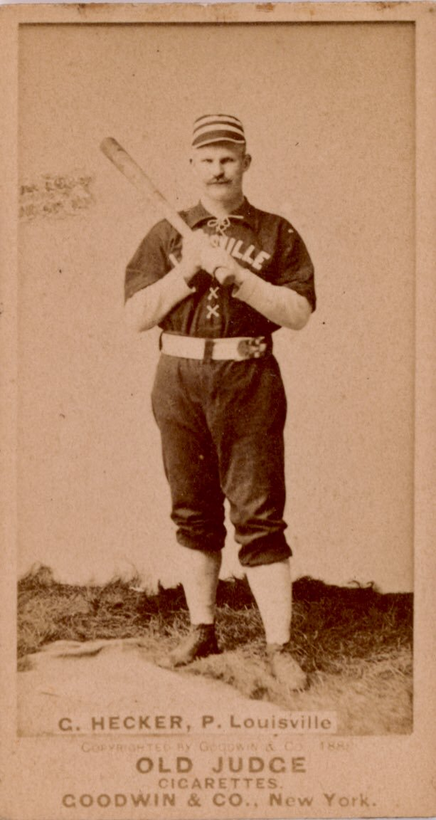 1888 Old Judge card of baseball player Guy Hecker